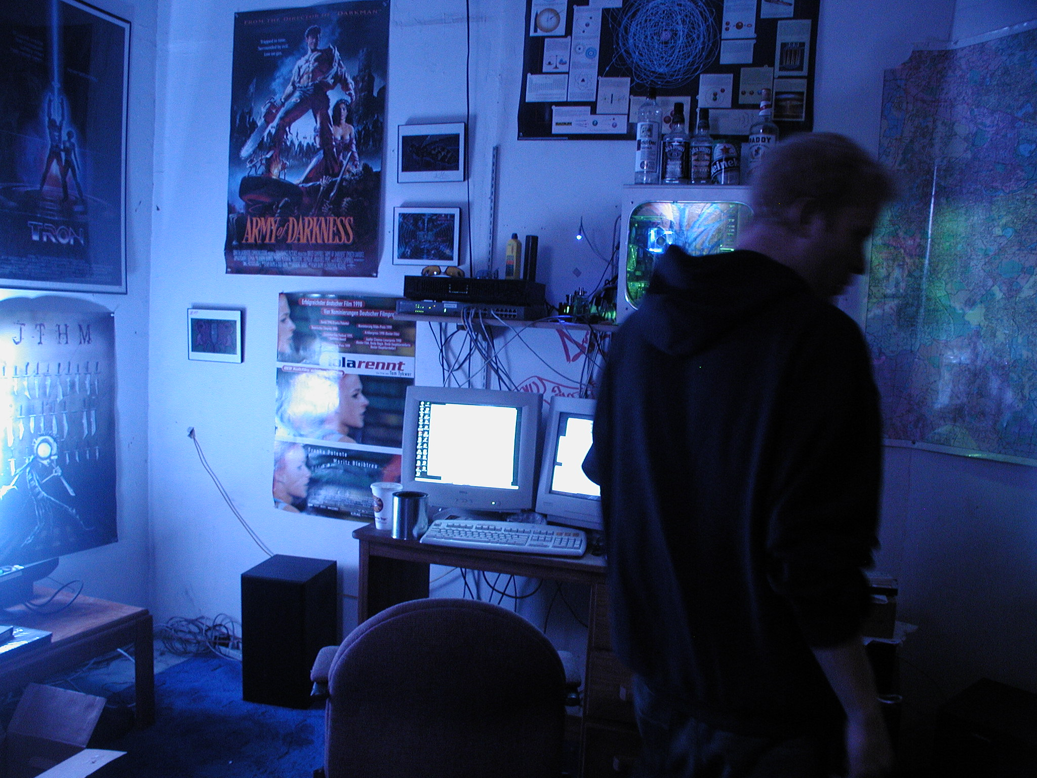 Photo of Al Sheedakim, Hacker and Programmer, in his home office, Winchester, MA, 2004.